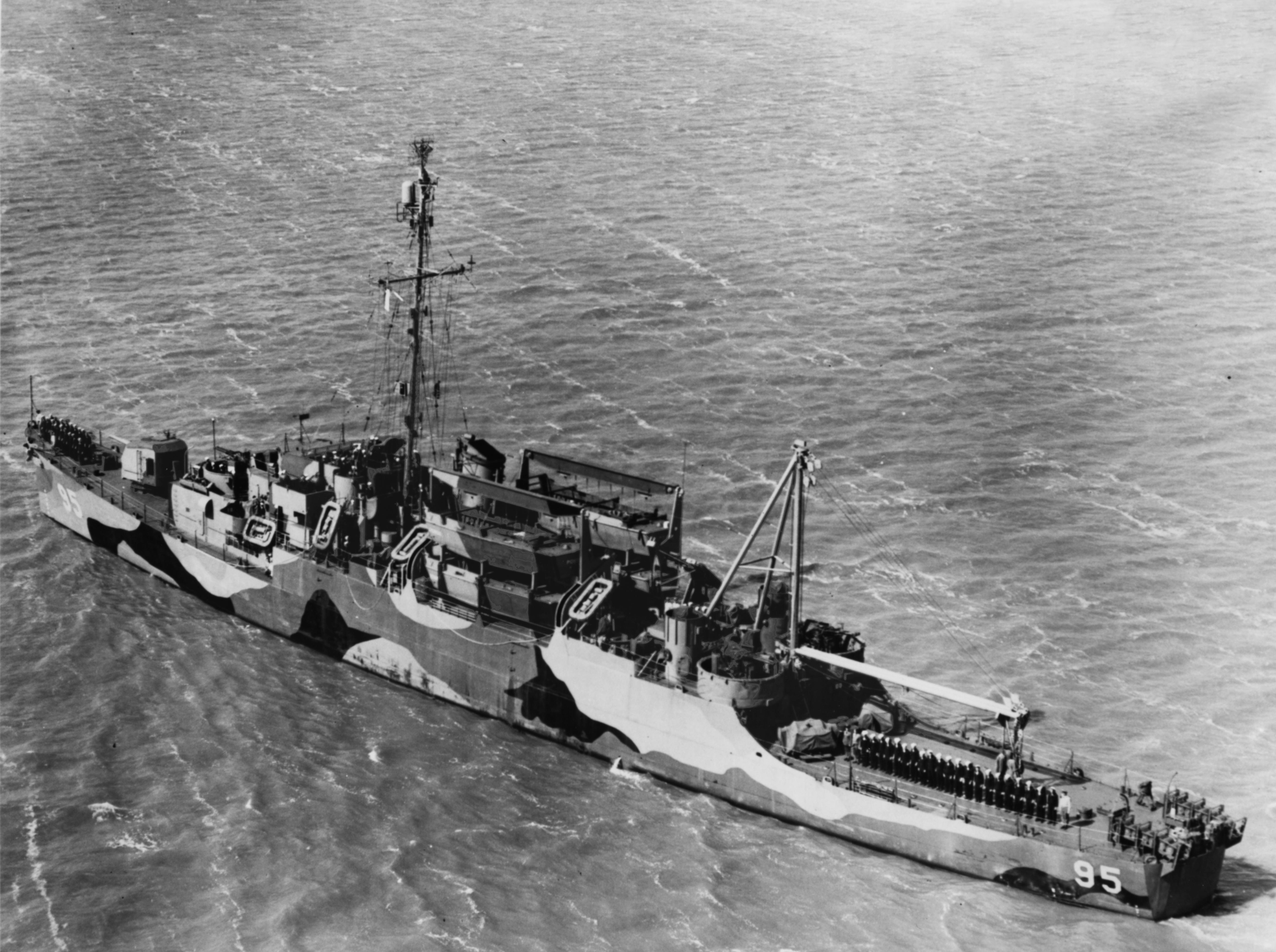 The U.S. Navy high-speed transport USS William M. Hobby (APD-95) underway off the Charleston Naval Shipyard, South Carolina (USA), on 19 April 1945. She is painted in Camouflage Measure 31, Design 5L.